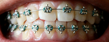 i haven't taken a picture of them in a month. i got the rubberbands changed yesterday. i've had the same wire for now 2 months. there hasn't been much going on up there.